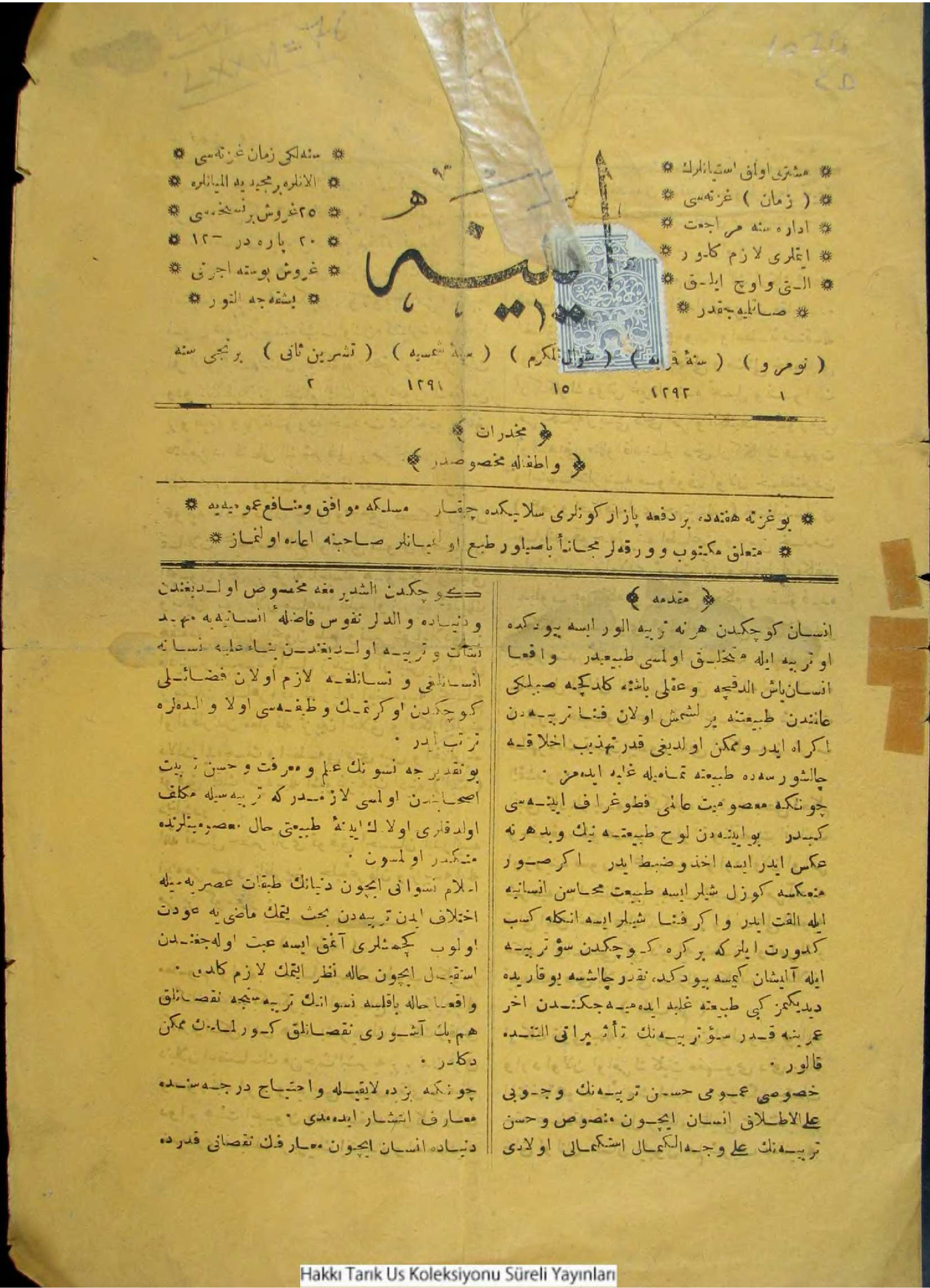 Ayine Thessaloniki Newspaper 1875-11-14